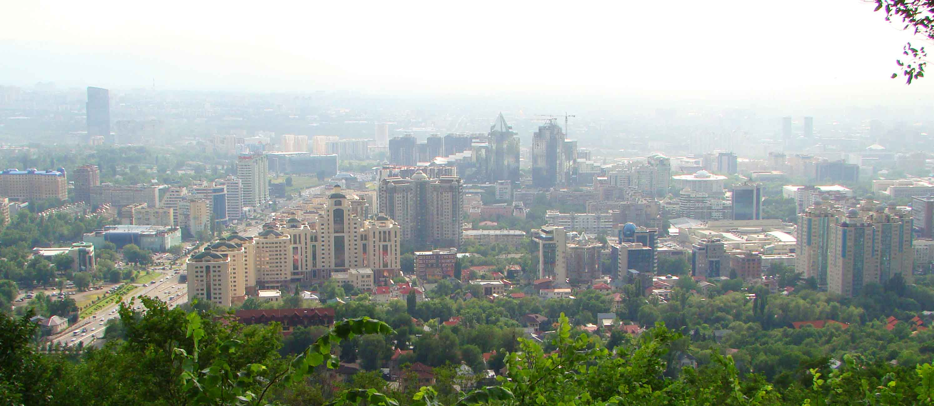 View of Almaty from the Kok Tobe hill